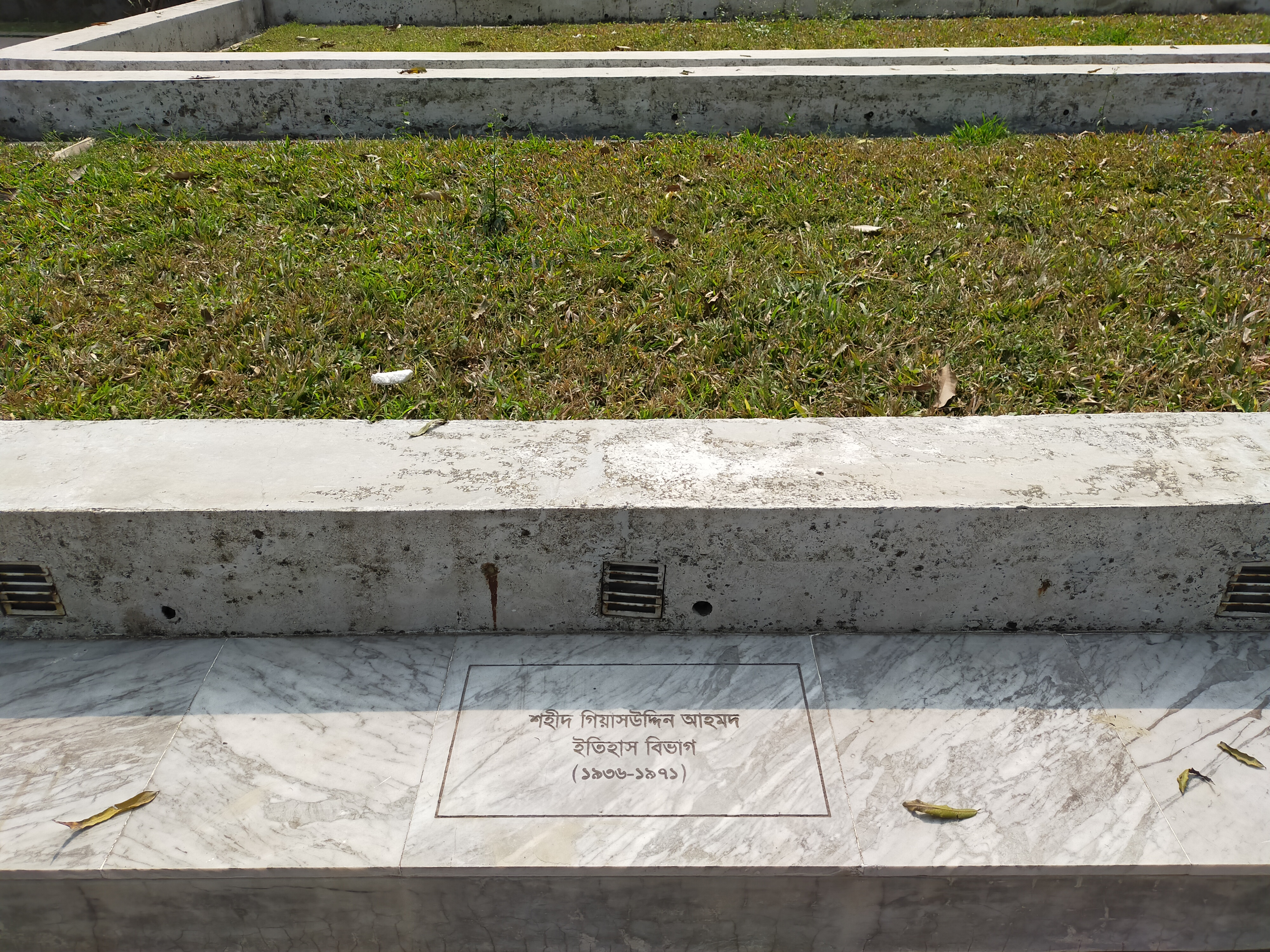 Grave of Ghyasuddin Ahmed (1935 – 1971) by the side of Dhaka University central mosque, a Bengali educationist and a martyred intellectual of 1971.